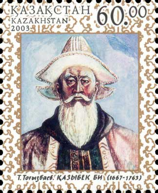 Stamp of Kazakhstan